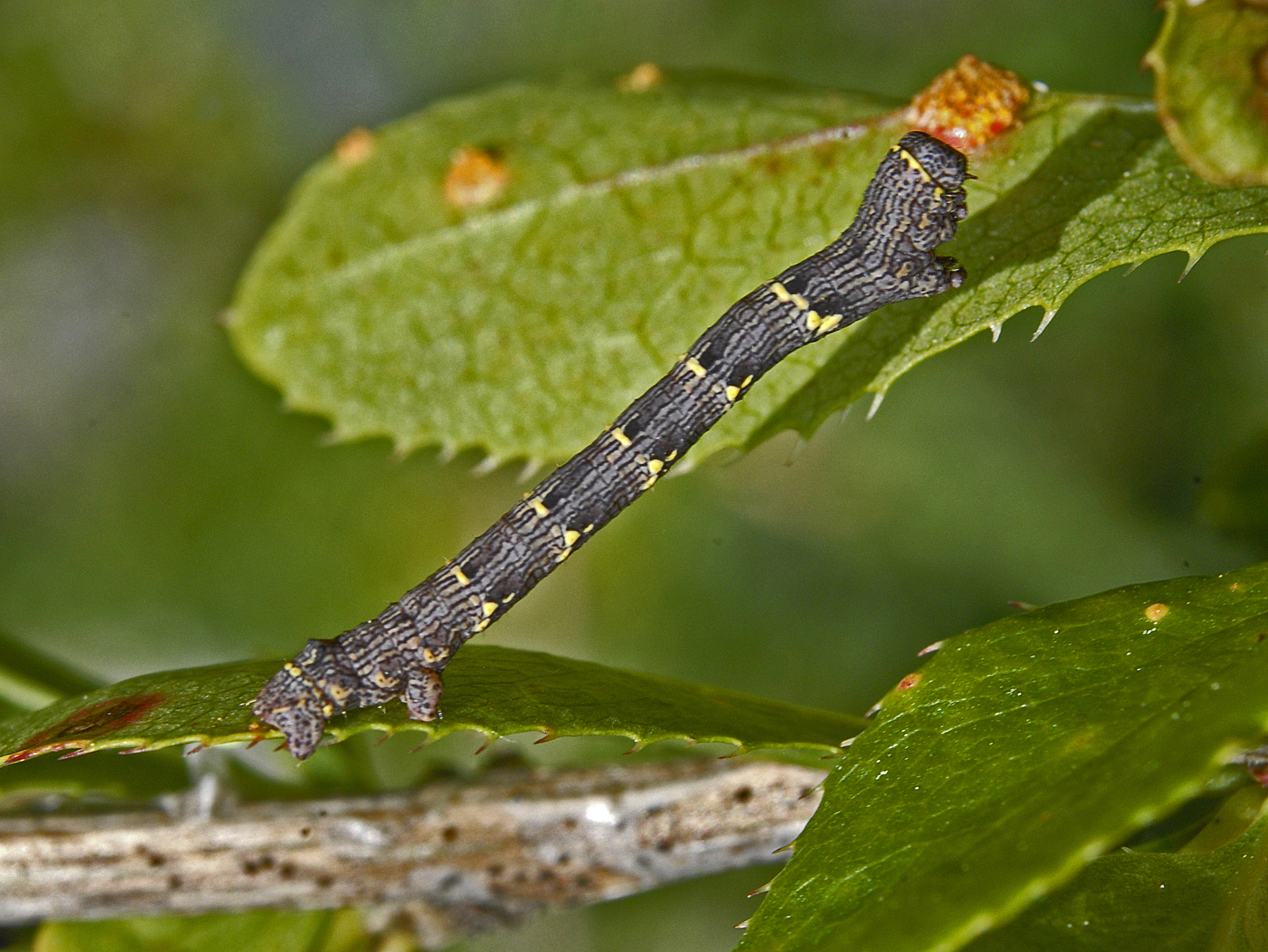 Young caterpillar of Lycia hirtaria. Valle ASrgentera, Torino, Italy